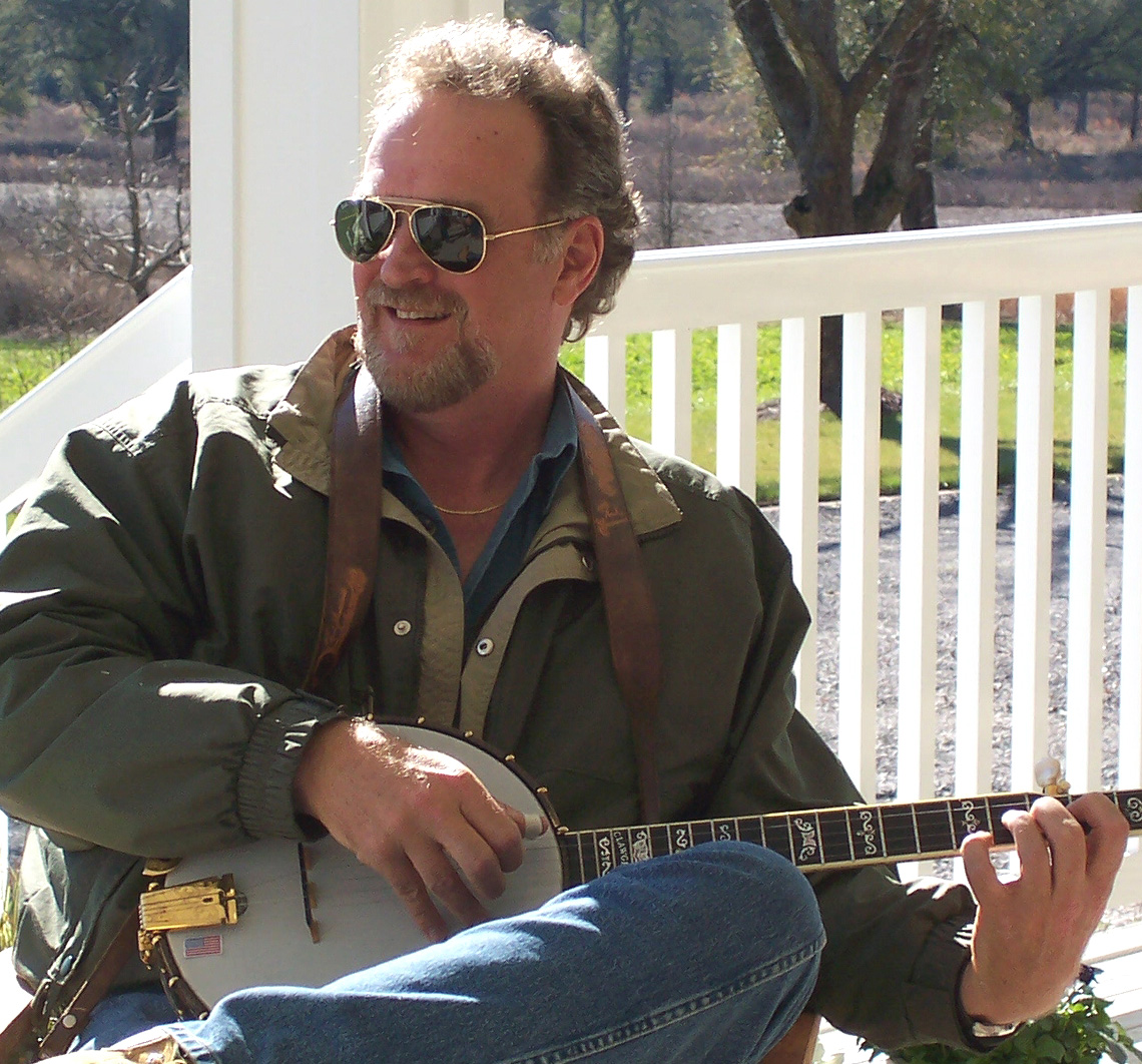 Mark Johnson at home in Dunnellon, FL